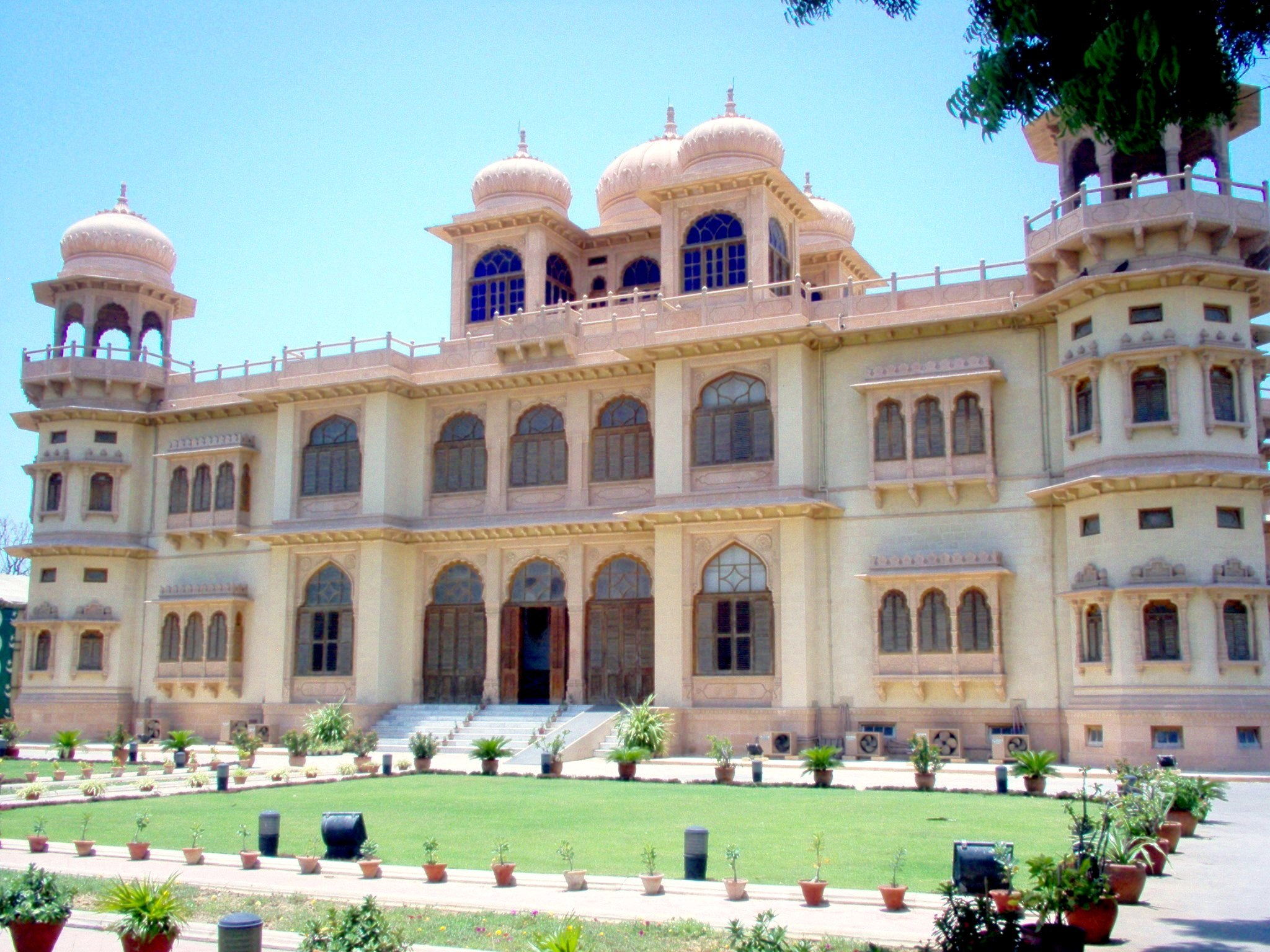 Summary Description: A picture of the Mohatta Palace Museum in Karachi, Pakistan Author/Source: took and edited this picture myself.